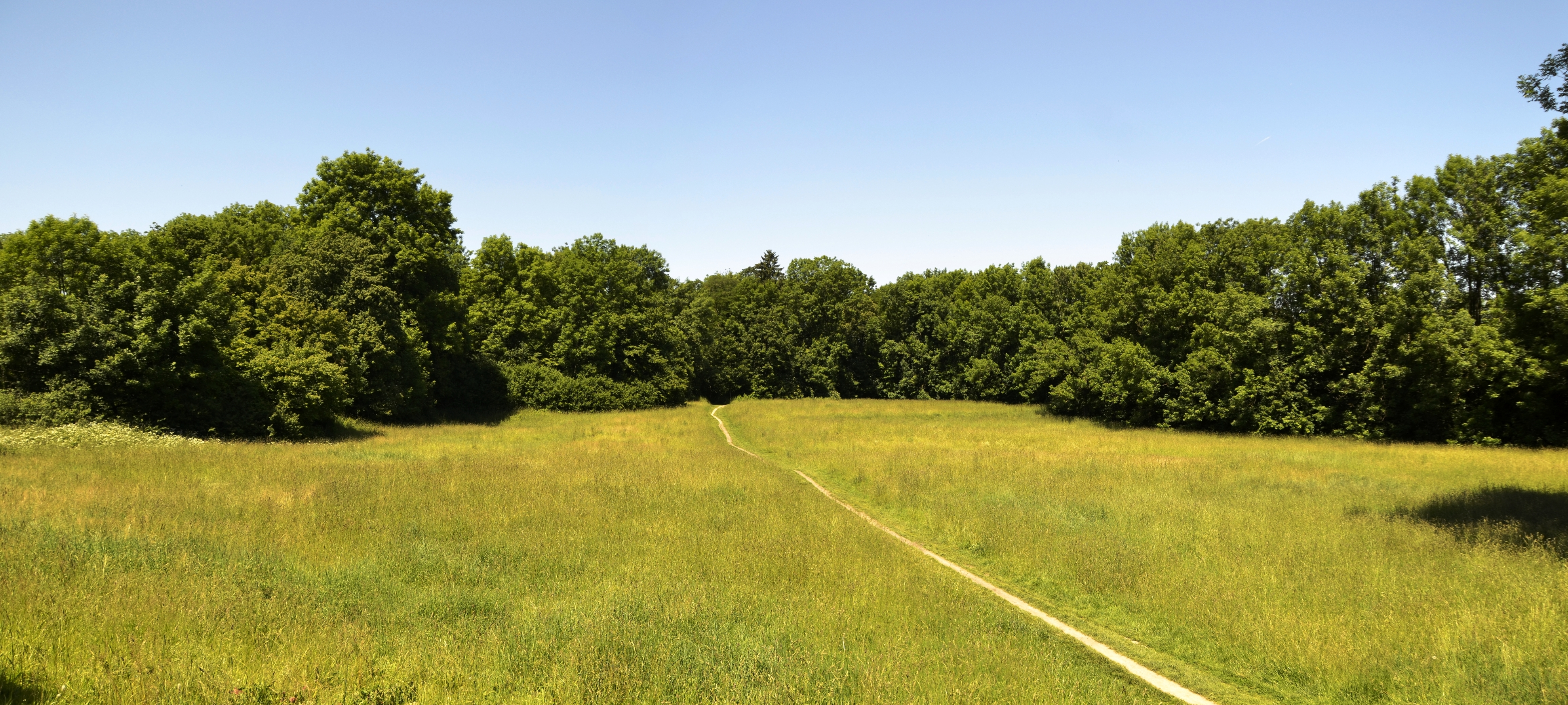 The Pasinger Stadtpark is a park in the West of Munich.